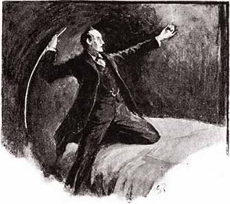 Illustration of the Sherlock Holmes short story The Speckled Band, which appeared in The Strand Magazine in February, 1892. Original caption was "HOLMES LASHED FURIOUSLY."